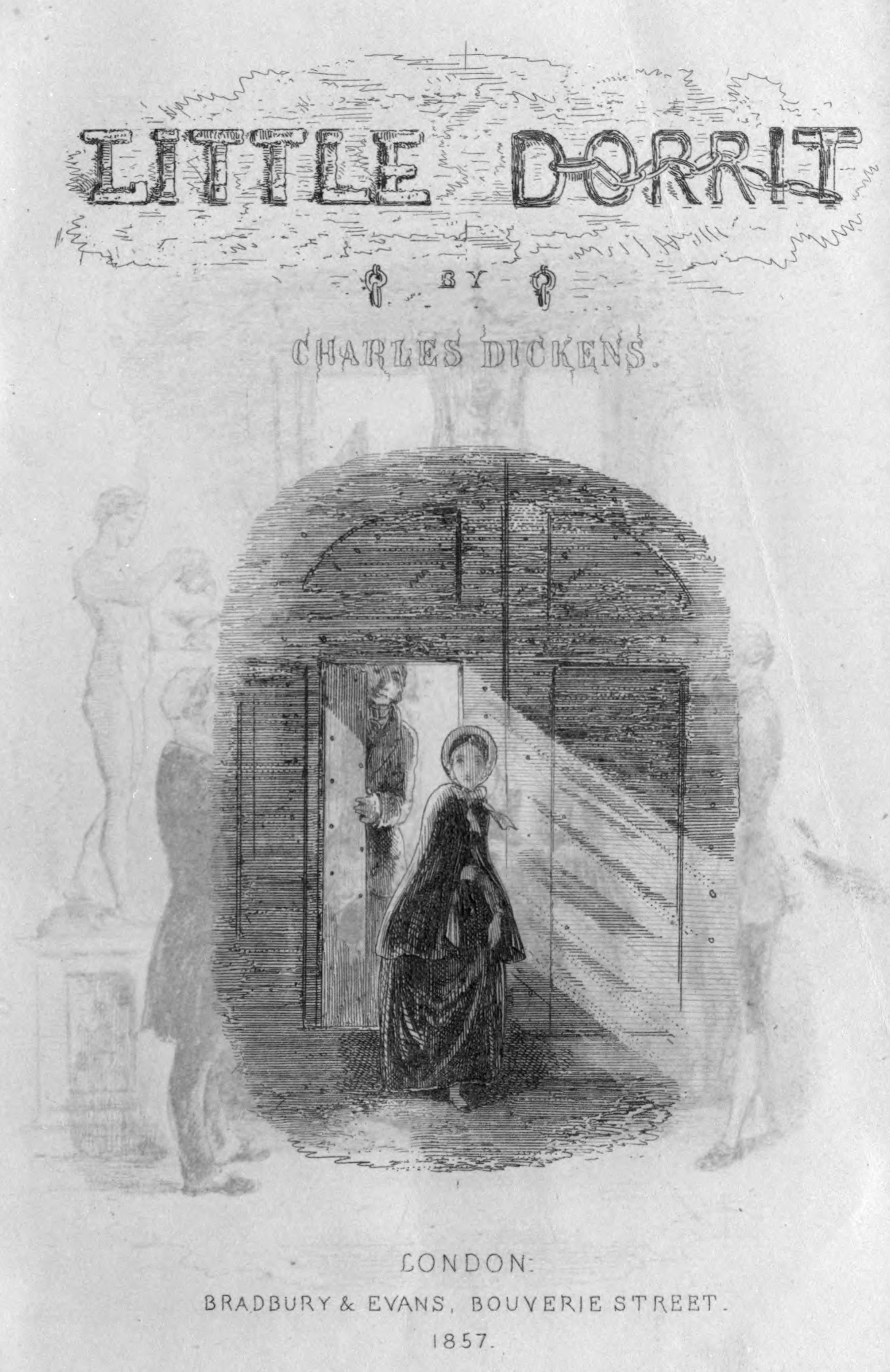 Illustration from the first edition of Little Dorrit by Charles Dickens. See filename for original image title.